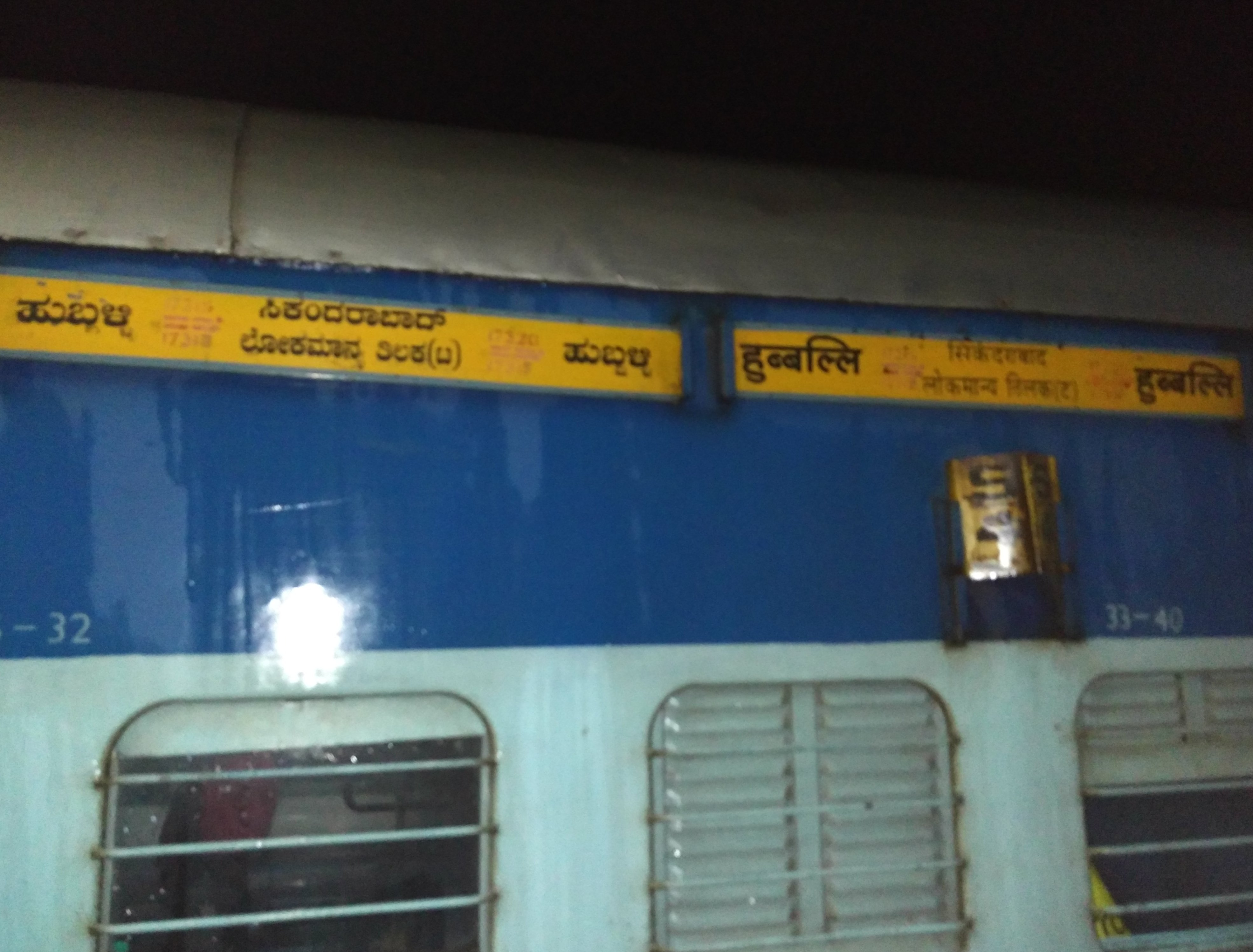 Sleeper coach of Hubballi LTT Express opertaed by Indian Railways